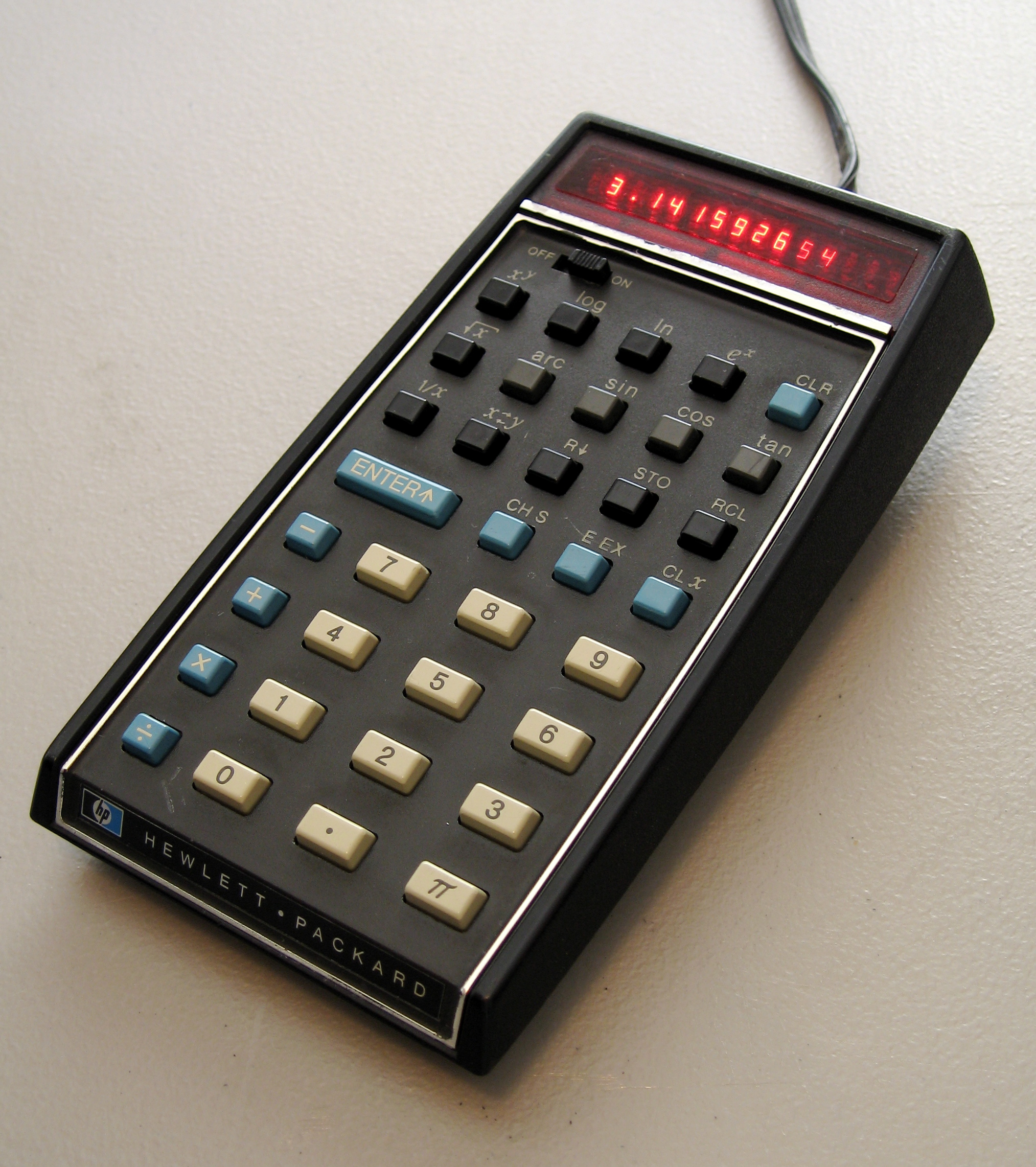 Finally! I've got my hands on an HP 35 calculator, the world's first pocket scientific calculator. It's older than me, though just barely.